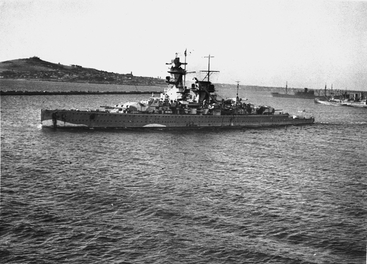 Description: German heavy cruiser Admiral Graf Spee in Montevideo harbor following the Battle of the River Plate in December 1939.